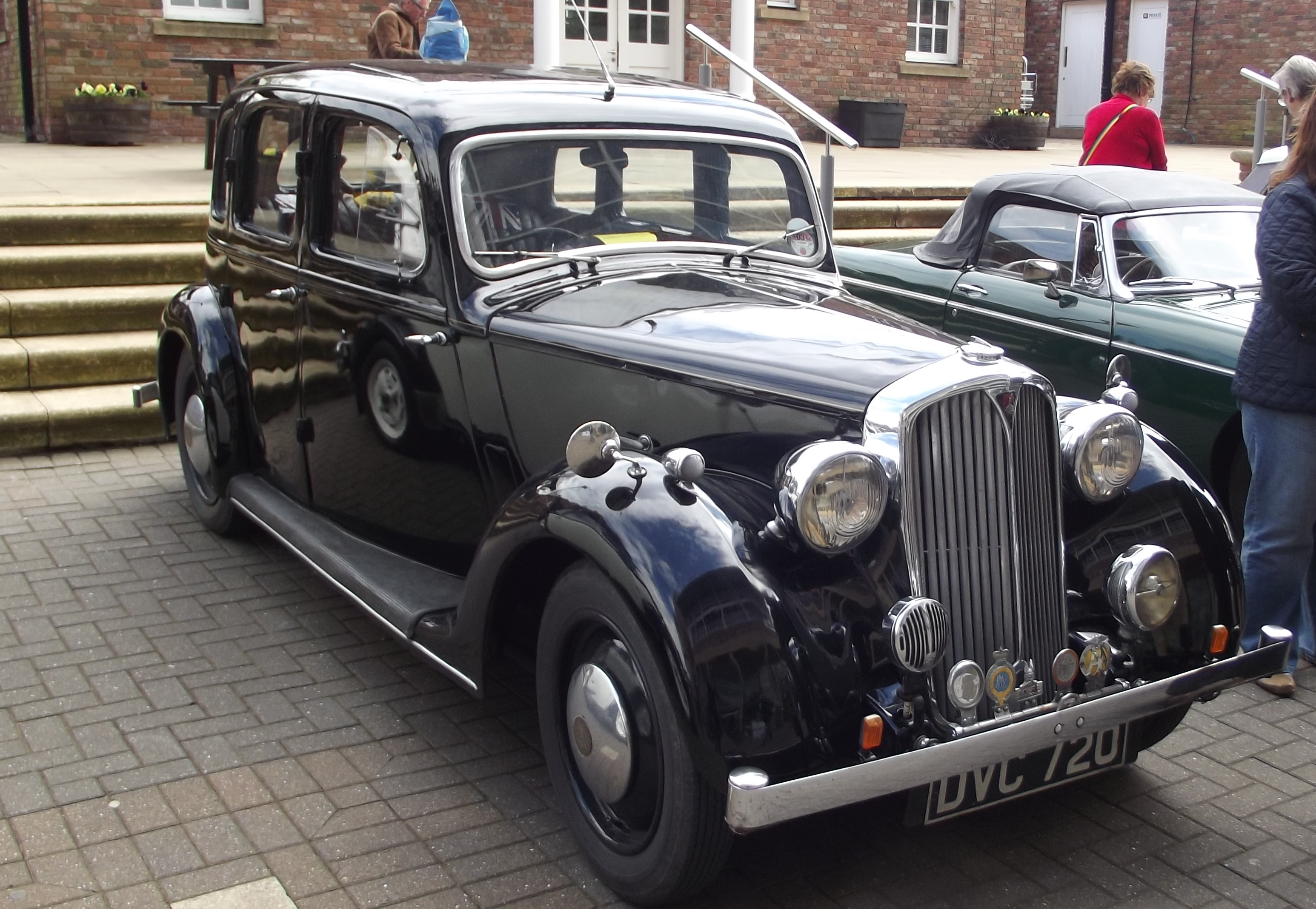 Rover 10 Saloon 1938(DVLA) first registered 30 November 1938, 1141cc